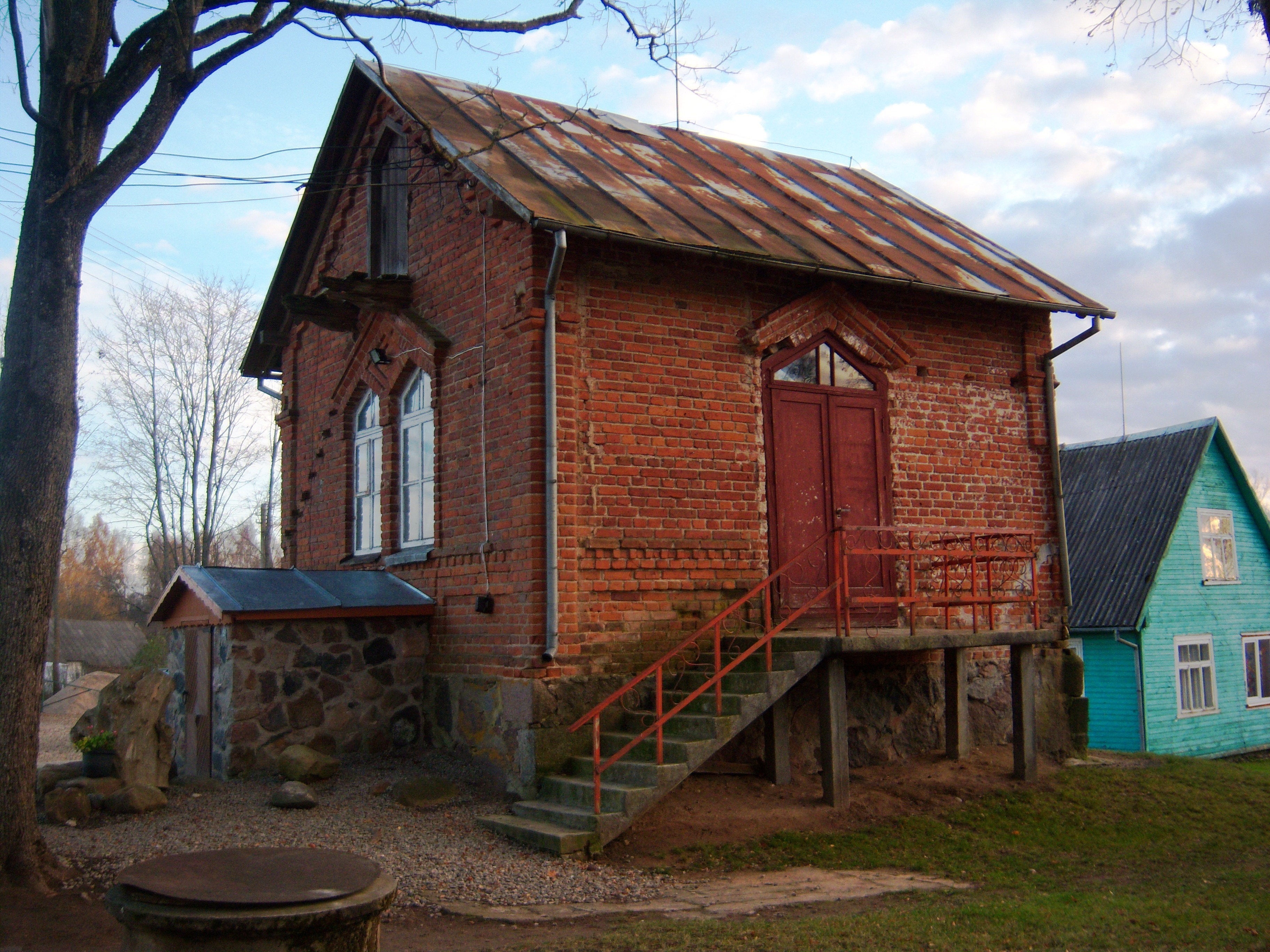 School Museum of Local Lore, Karsakiškis, Panevėžys District, Lithuania